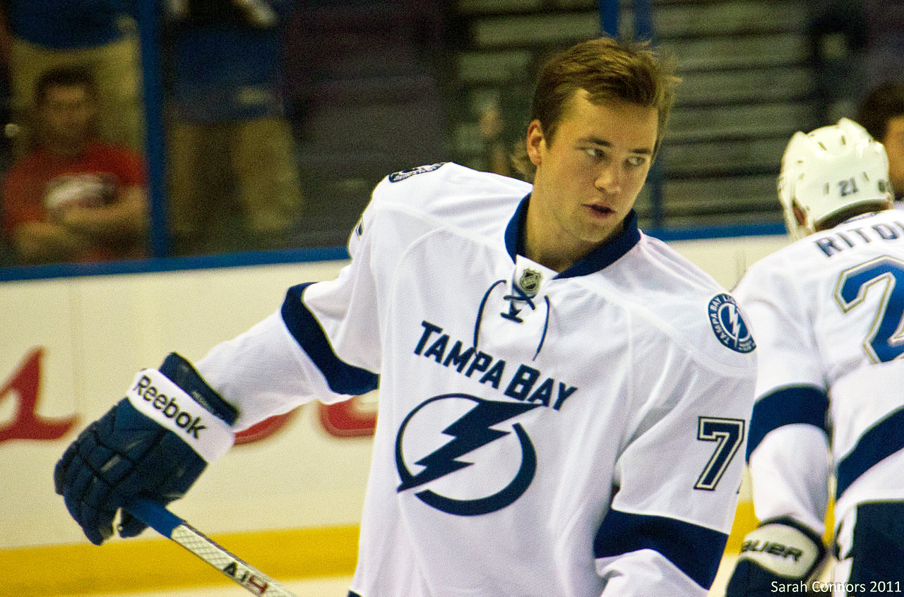 Victor Hedman of the Tampa Bay Lightning